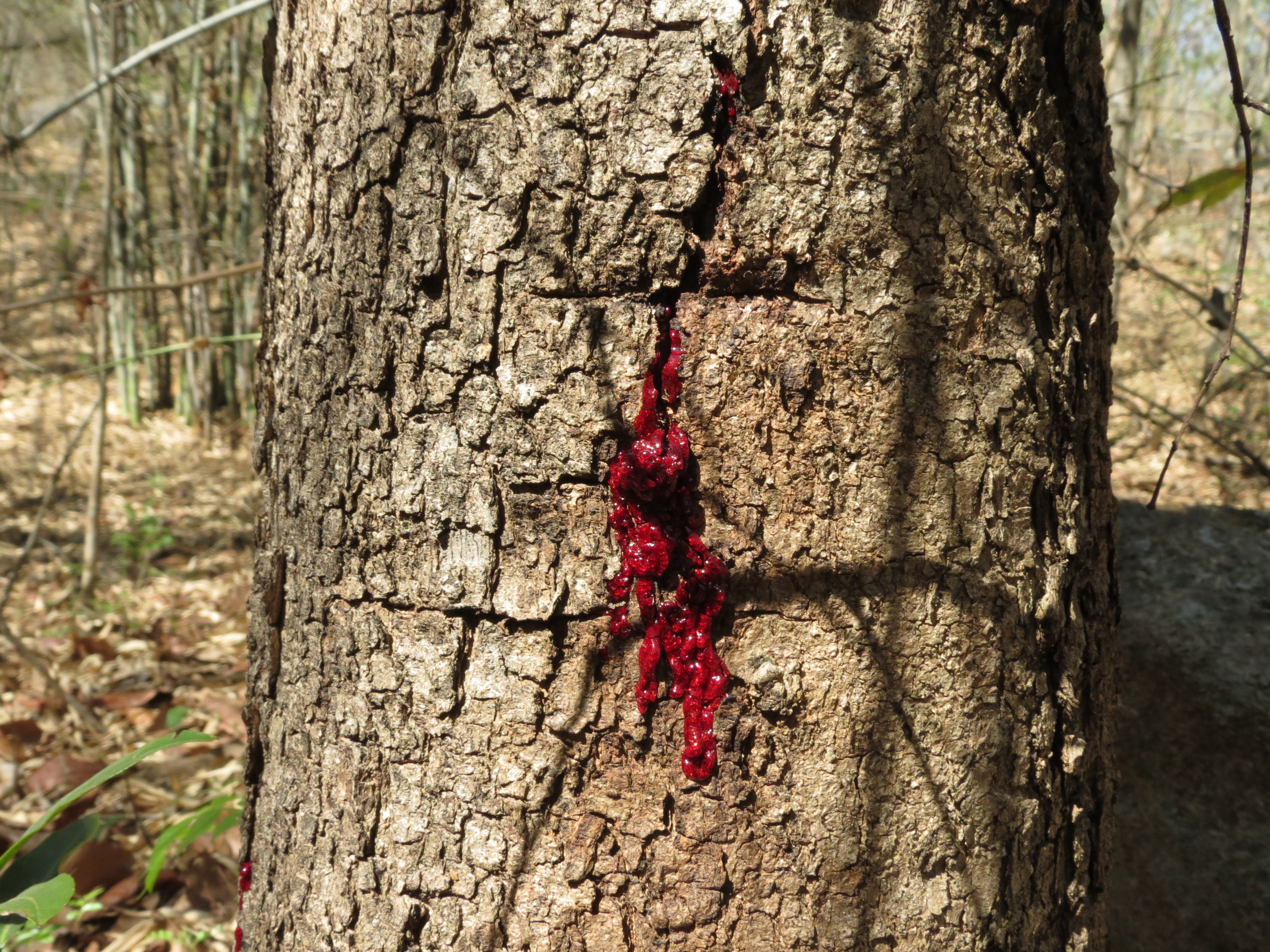 Most probably on Pterocarpus santalinus. Not sure. Seen in Shivanahalli Bangalore